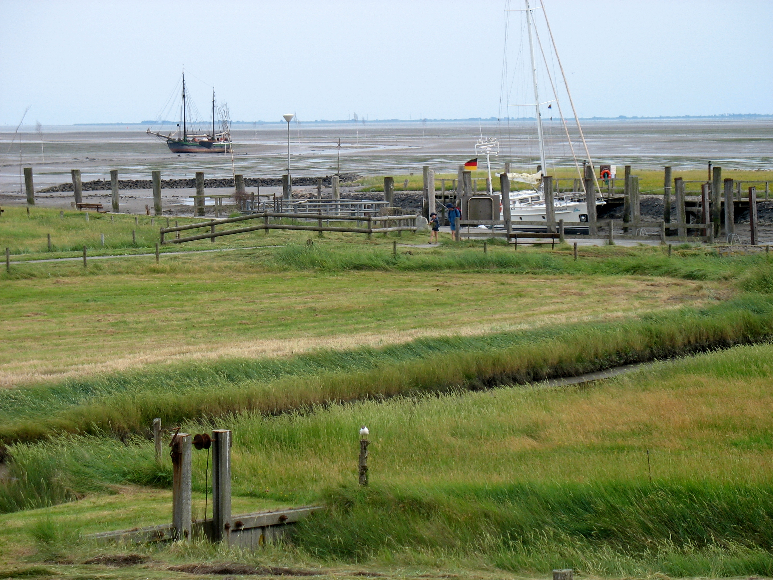 Harbour of Olan Hallig (Schleswig-Holstein, Germany) at low tide